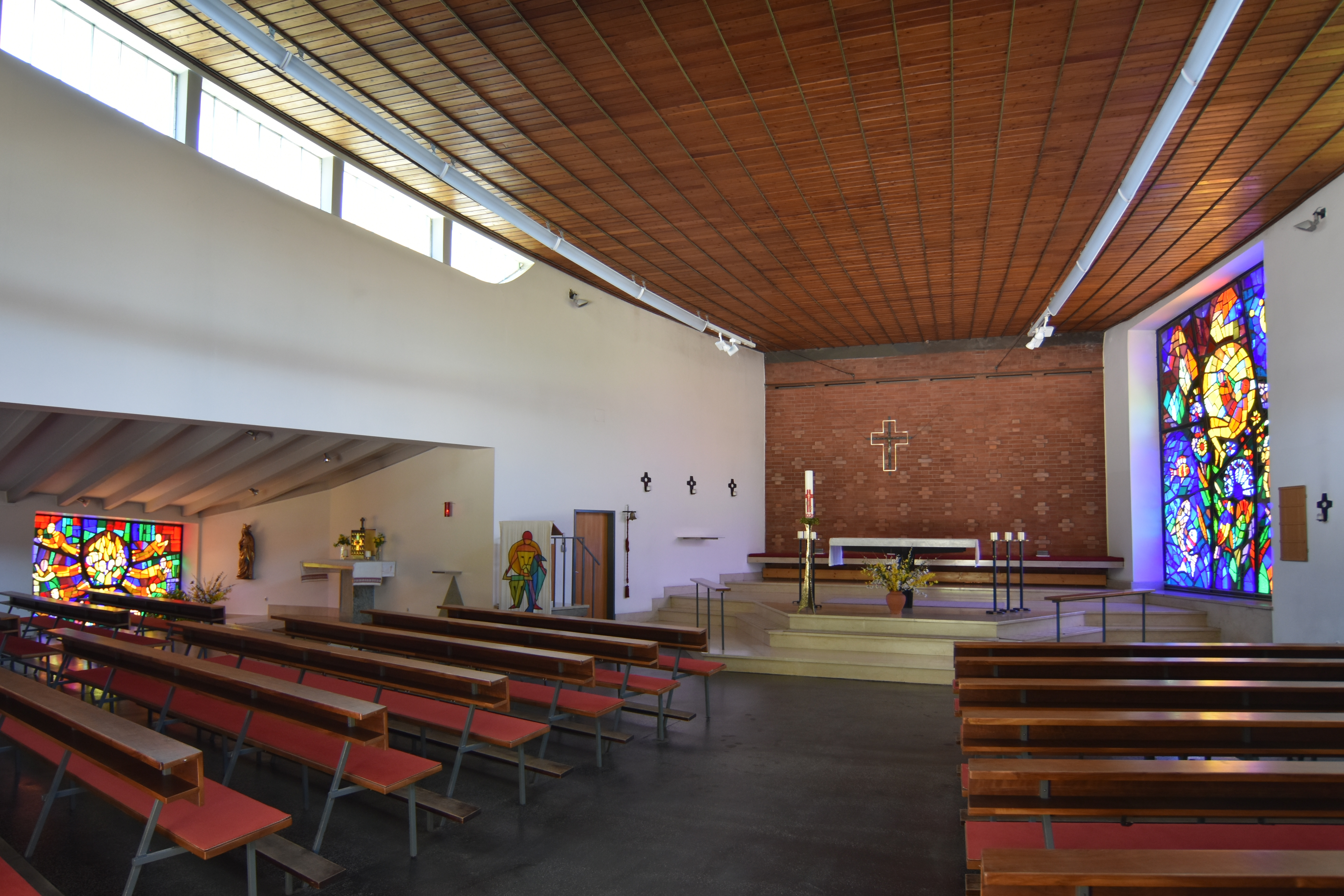 Church Kath. Pfarrkirche hl. Dreifaltigkeit Thörl Interior